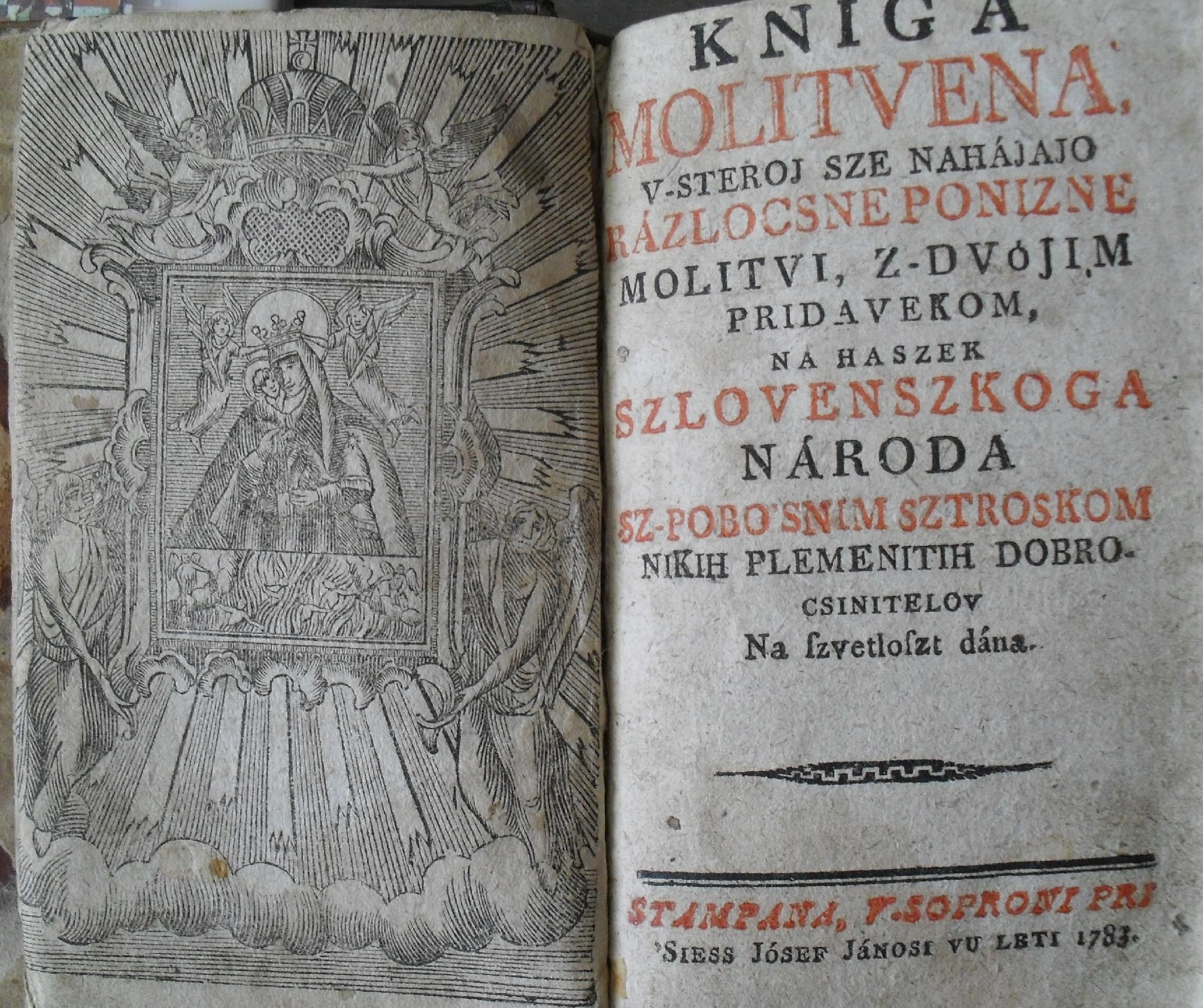 Miklós Küzmics: Kniga molitvena (Prayer book), 1. issue from 1783. Great, famous work of the prekmurian literature